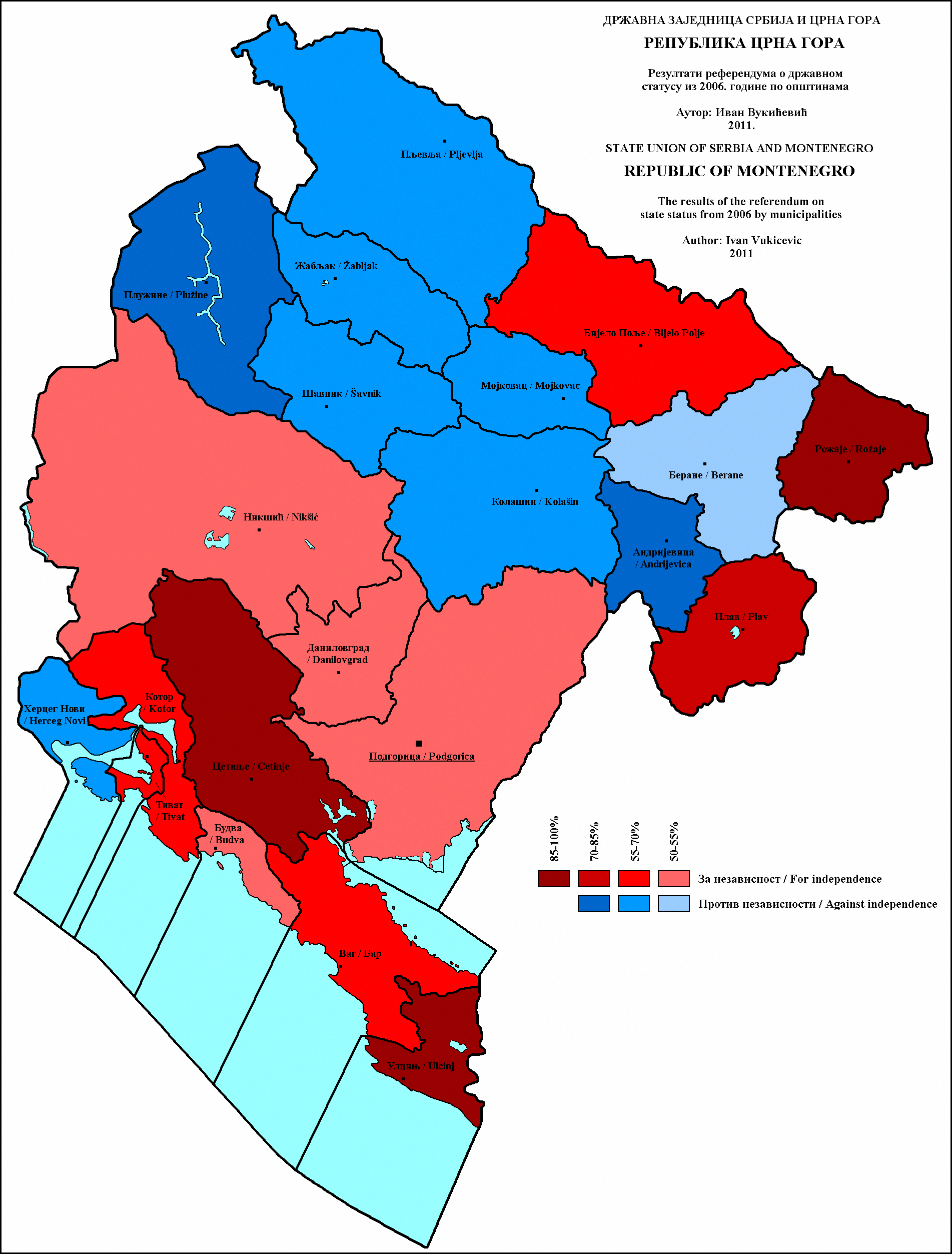 The results of the referendum on state status of Montenegro from 2006 by municipalities. Authoɾ: Ivan Vukicevic